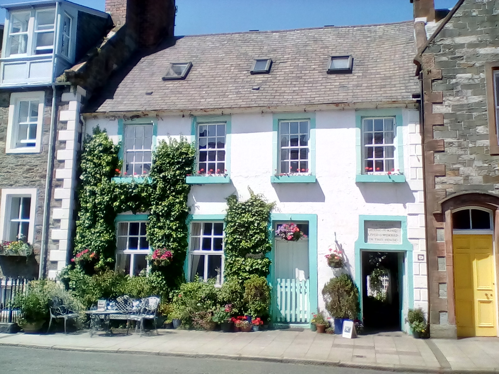 Greengage, High Street, Kirkcudbright, Scotland